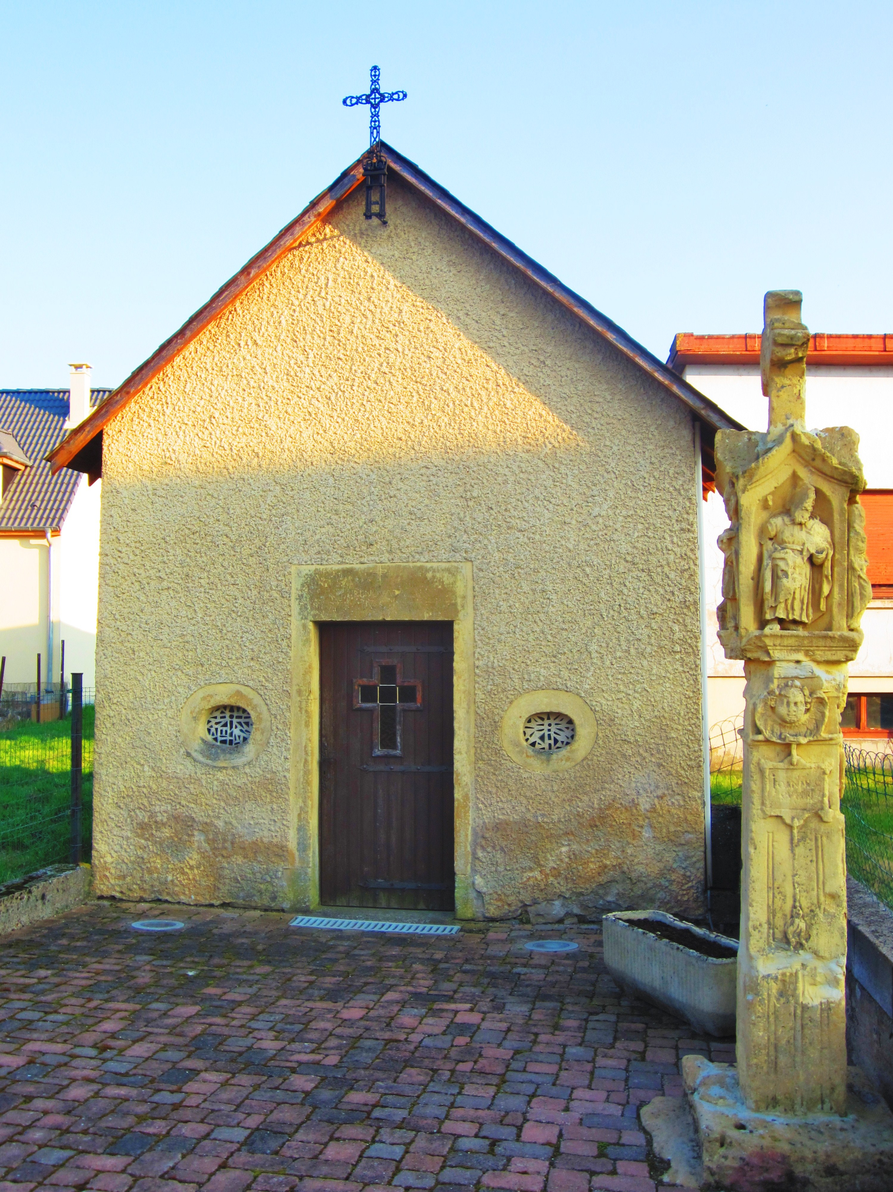 Basse Ham chapel